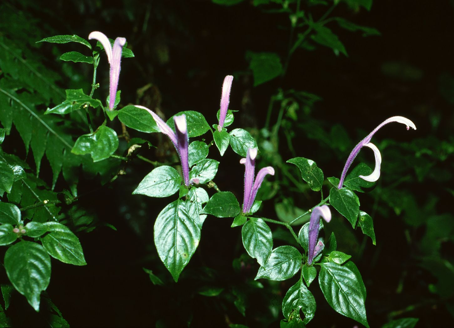 Poikilacanthus macranthus, Akanthusgewächse (Acanthaceae) – Costa Rica: Prov. Puntarenas, Cordillera de Tilarán, Monteverde, "Canopy Tour".